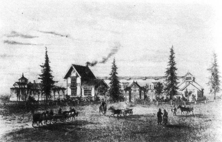 Farm in Il'inskoe usadba